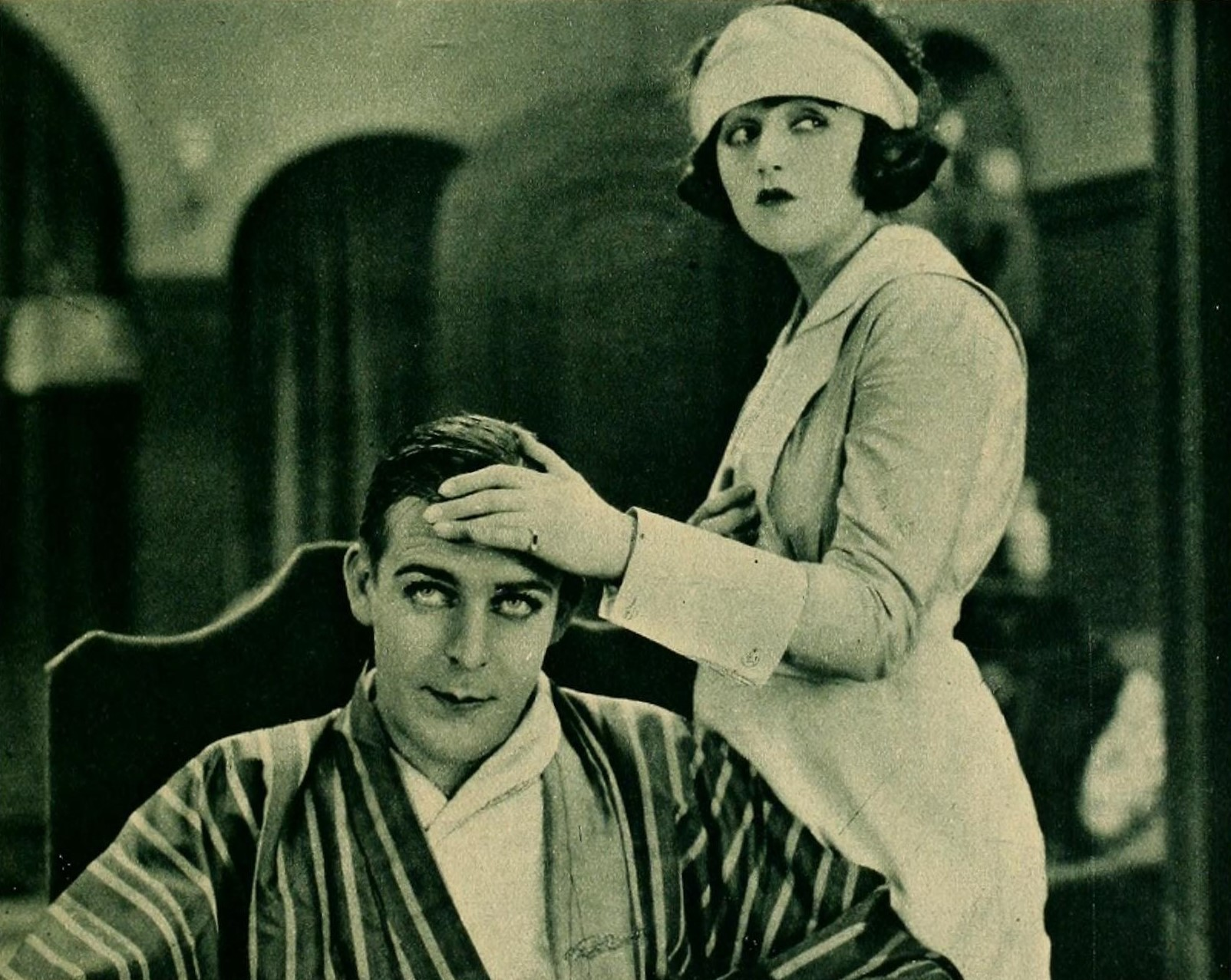 Wallace Reid and Bebe Daniels in Sick Abed, 1920